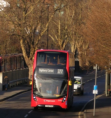 277 Bus, Mudchute YHY66PHA 12403 of Stagecoach, which since September 2016 has served Crossharbour, rather than Leamouth. Leamouth section was replaced by a re-routed D3, which has itself now been extended to serve Orchard Place and City Island since April 29 2017